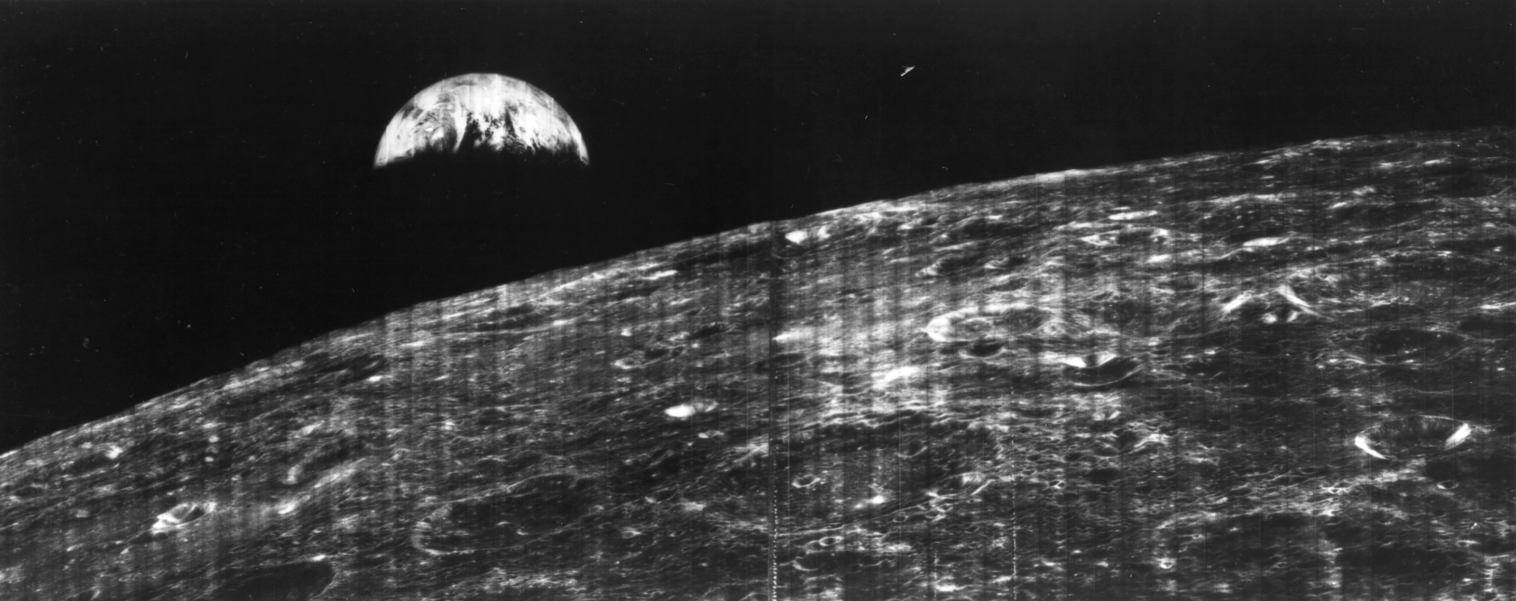 The world's first view of Earth taken by a spacecraft from the vicinity of the Moon. The photo was transmitted to Earth by the United States Lunar Orbiter I and received at the NASA tracking station at Robledo De Chavela near Madrid, Spain. This crescent of the Earth was photographed August 23, 1966 at 16:35 GMT when the spacecraft was on its 16th orbit and just about to pass behind the Moon.Reference Numbers: Center: HQCenter Number: 67-H-218GRIN DataBase Number: GPN-2000-001588